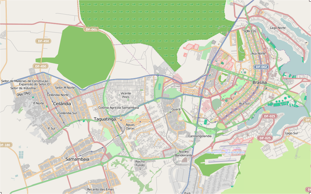 Partial map of the Federal District, Brazil.